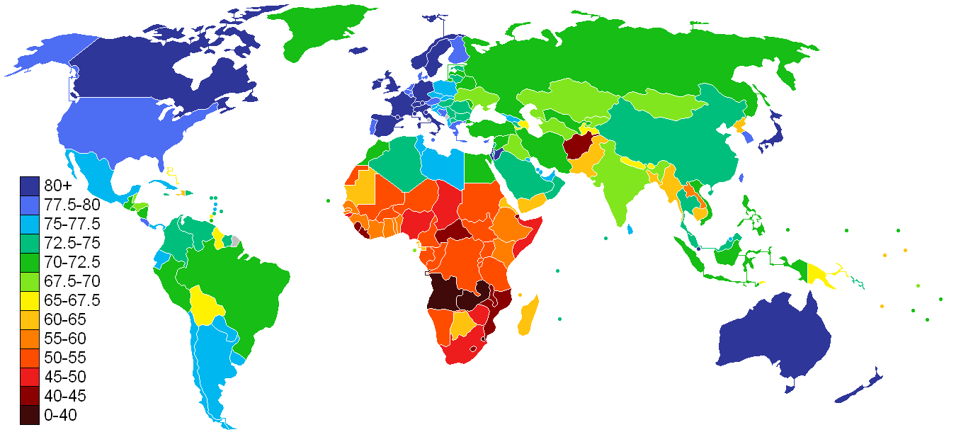 Corrected Russia.